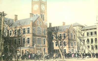 Customs House in the Bund, Shanghai